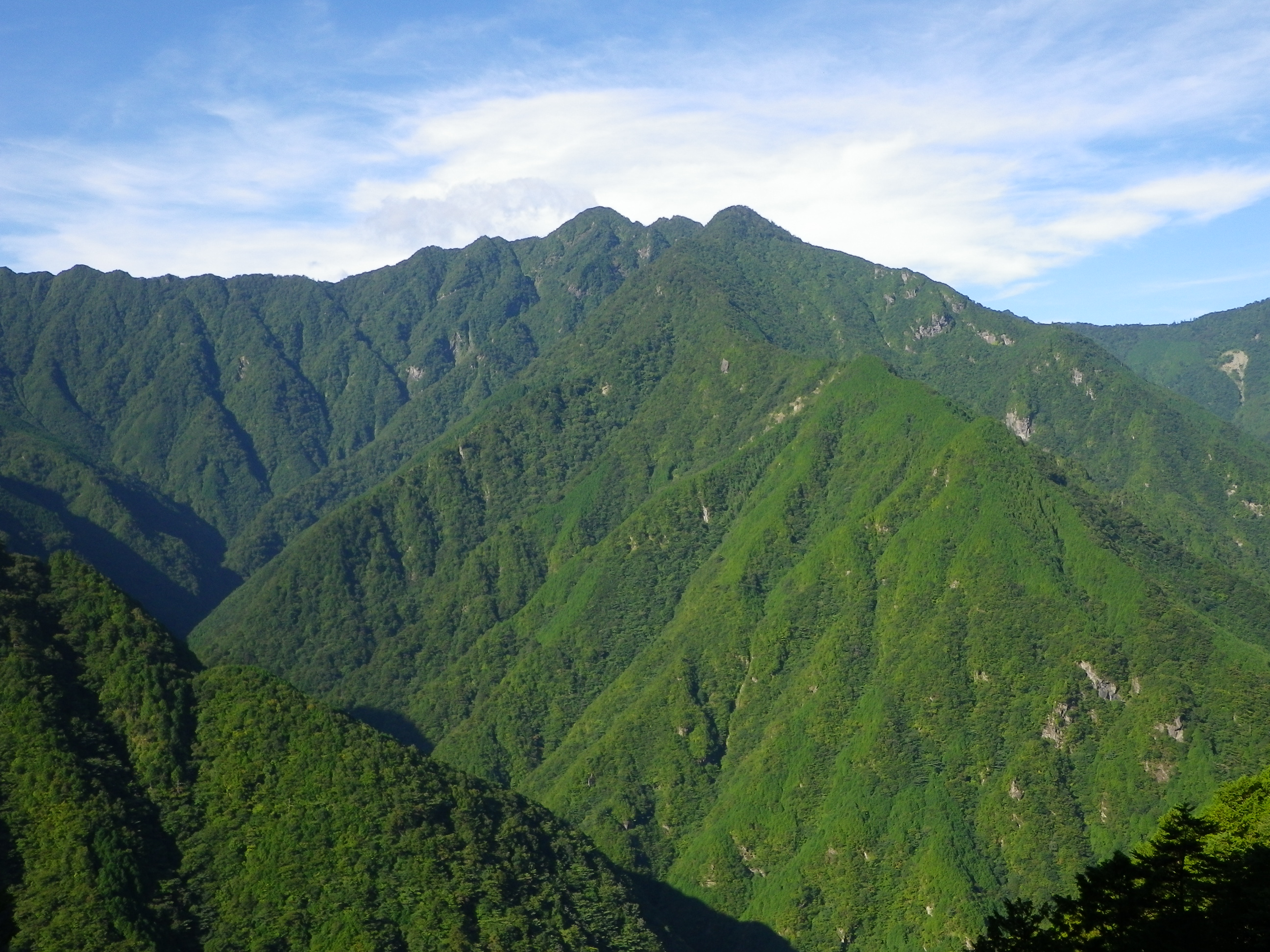 Mount Nishikuromori as seen from the ENE.